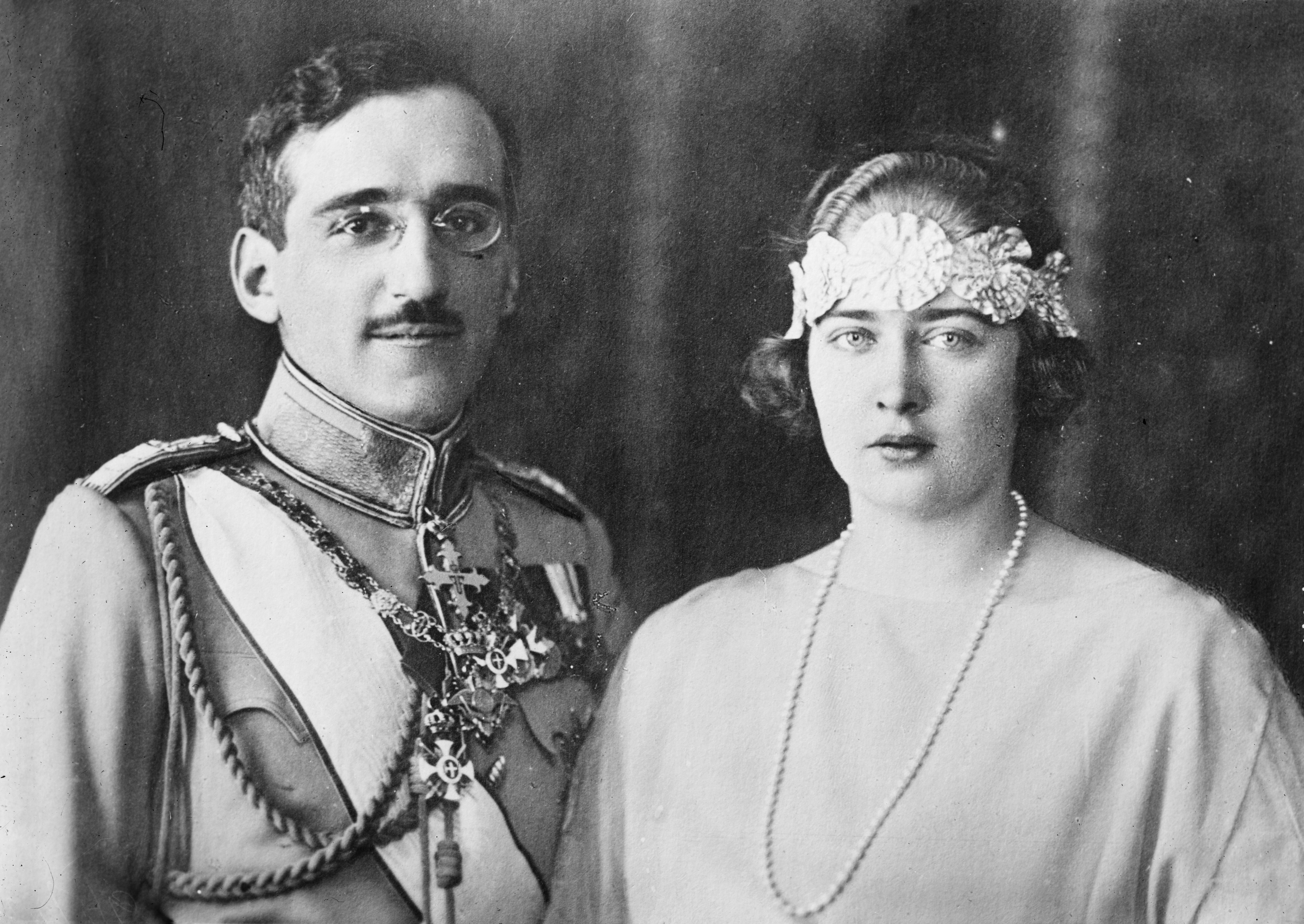 King Alexander I of Yugoslavia and his wife.